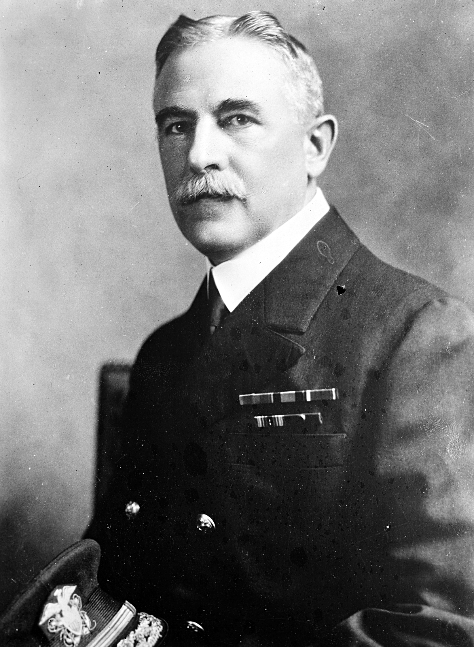 Henry Hughes Hough, Admiral of the United States Navy and Governor of the US Virgin Islands